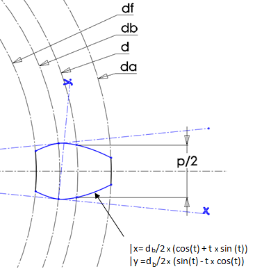 Gear tooth drawing